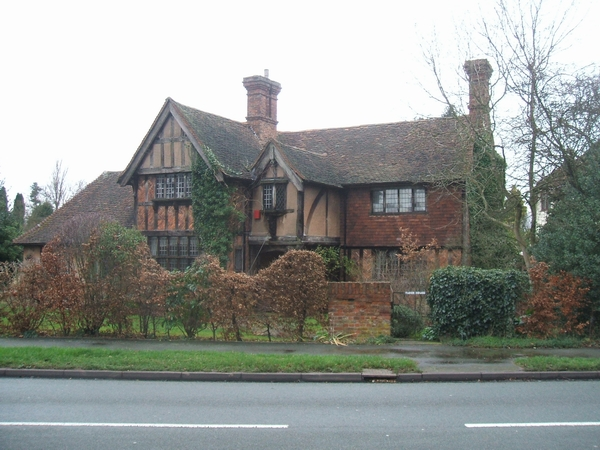 Tudor House, Histons Hill This is an early 20th century example of the 'Mock Tudor' house and may have helped set the fashion for the many modern housing developments. This house was designed and built by Major Kenneth H Smith between the wars. He came to this country in 1915 with the Canadian armed forces and stayed on after marrying an English girl. The house was built in the Tudor style using reclaimed materials from Lymore Hall, Montgomery Castle, Bentley Hall and an old inn in Dudley. Smith was responsible for a number of other properties in the Wolverhampton area constructed in a similar fashion.